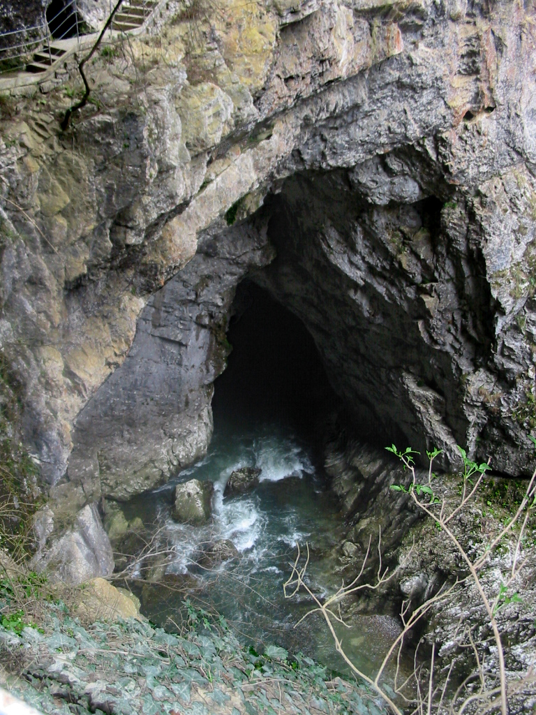 Last huge Ponor (of 3), where river Reka disappears in Škocjan Cave, Slovenia. The even bigger, 30m high, now dry, portal of the cave is above (here not seen).